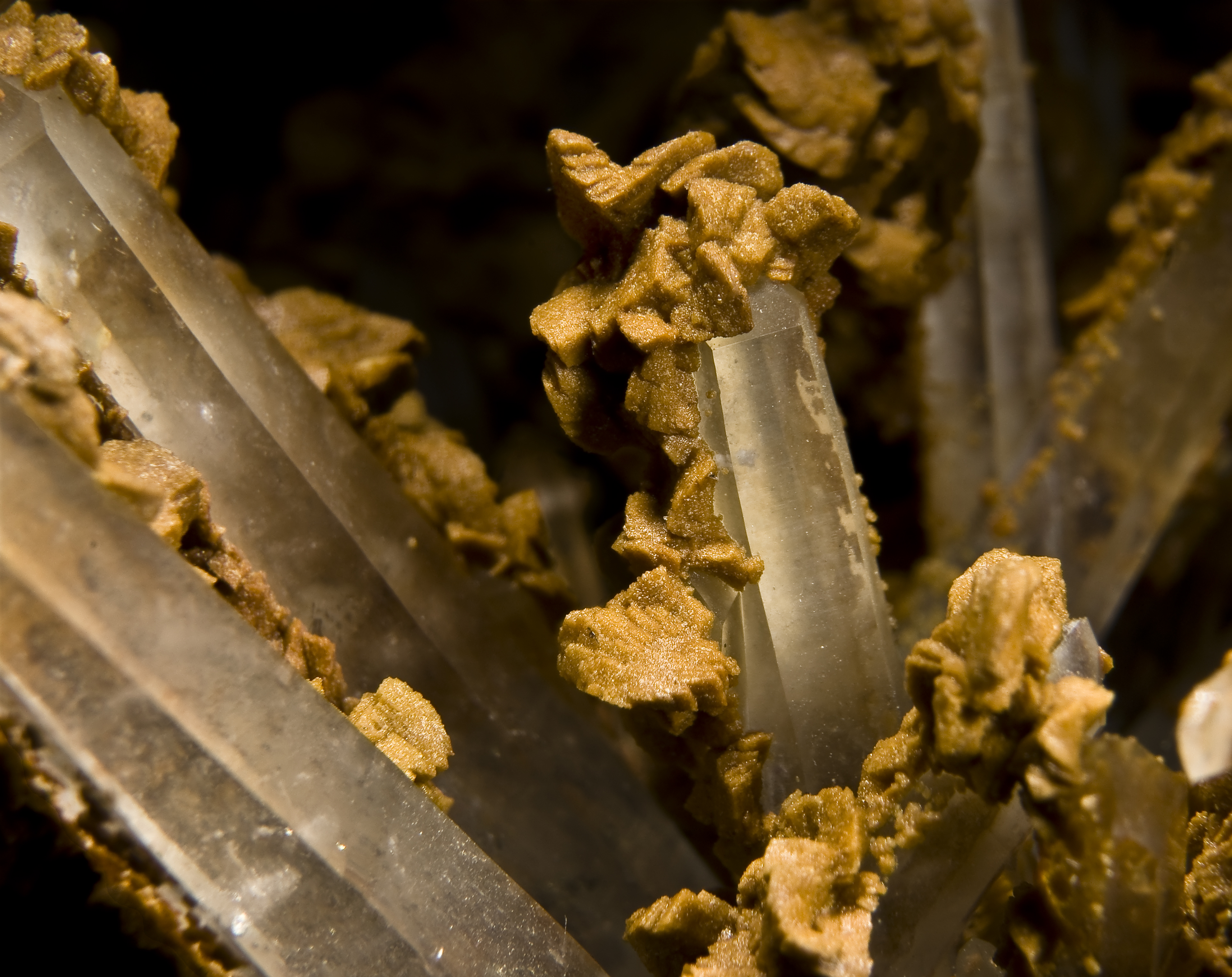 Ankerite on quartz - Huaron Mines, Huaron Mining District, San Jose de Huayllay District, Cerro de Pasco, Daniel Alcides Carrión Province, Pasco Department, Peru (View 2cm)